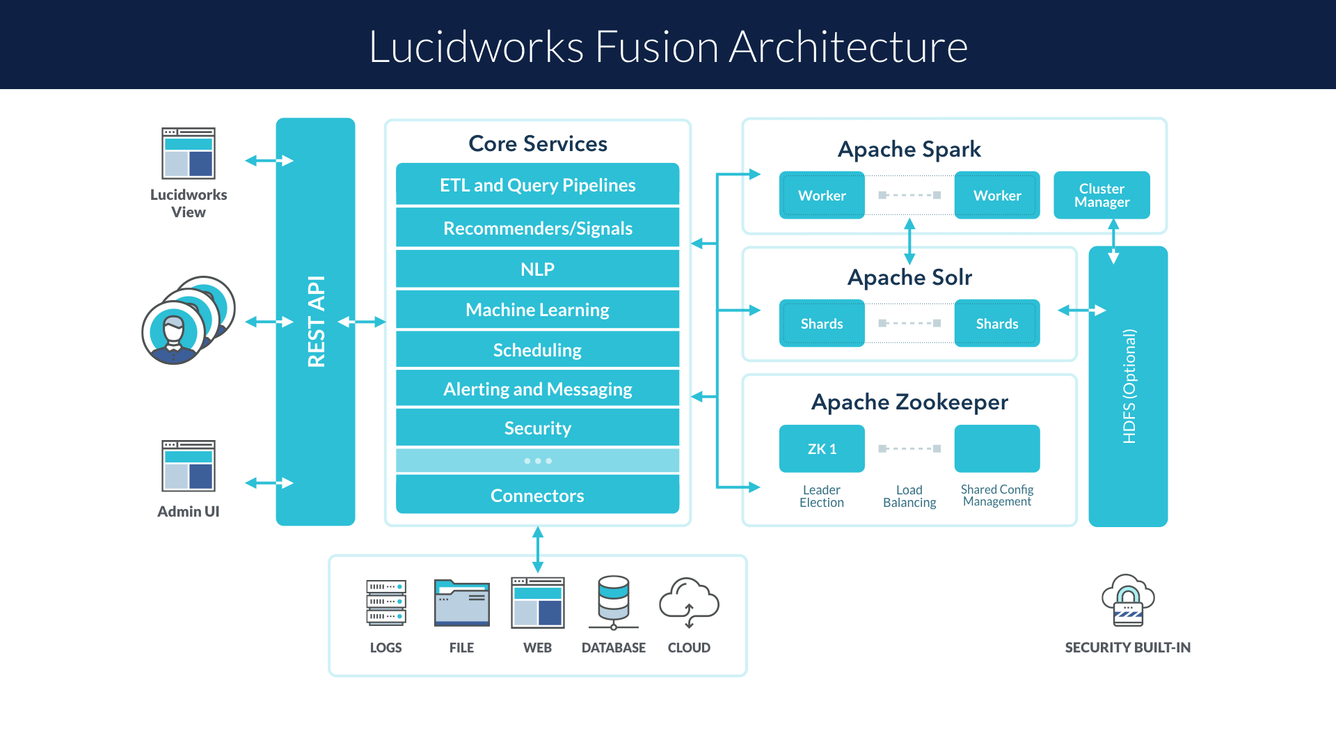 Architecture diagram for Lucidworks Fusion search and big data application framework.